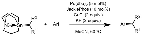 Biscoe and colleagues report a stereoretentive Stille coupling using alkyl carbastannatranes.